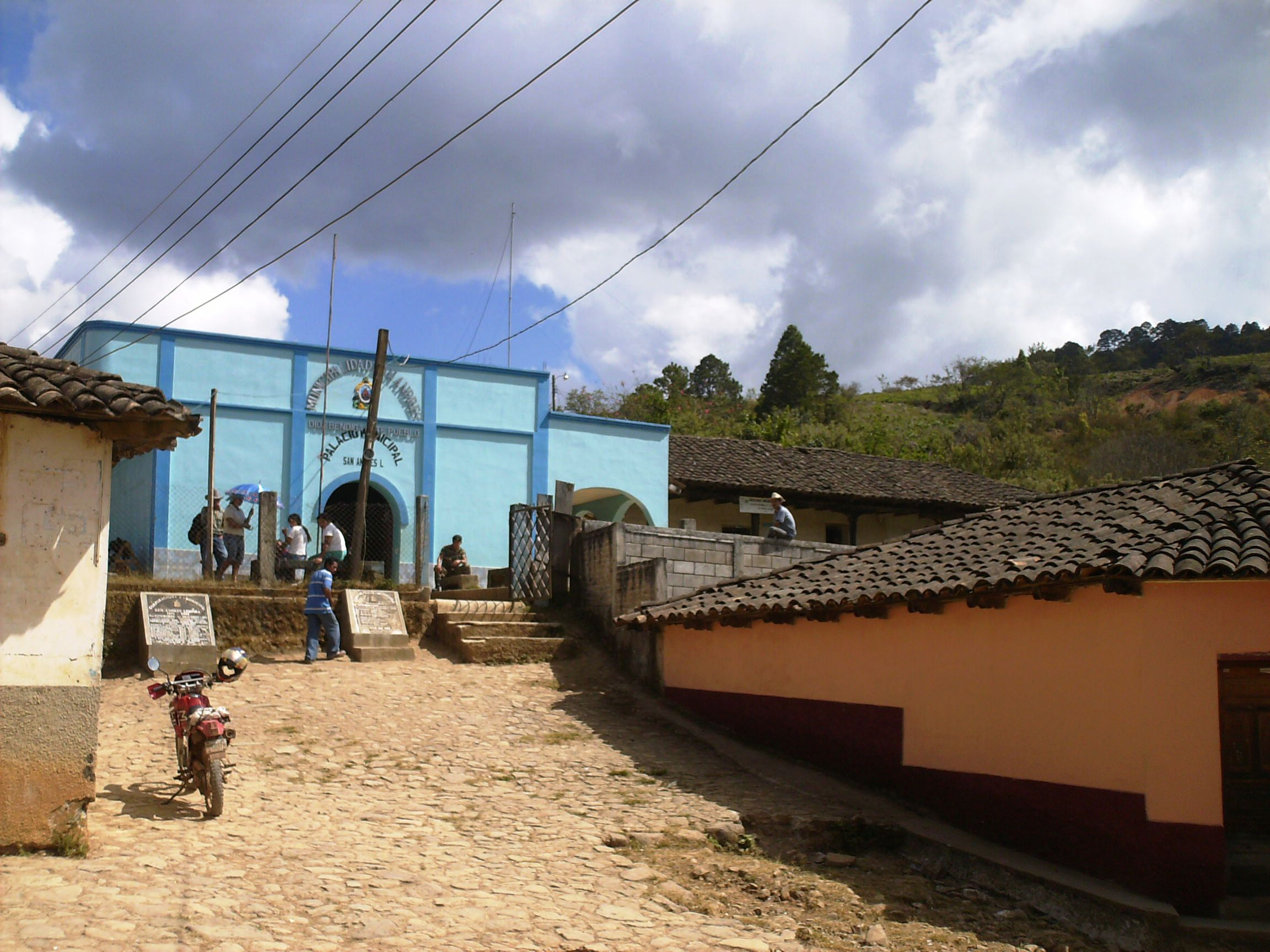 San Andrés, municipality in the Honduran department of Lempira.